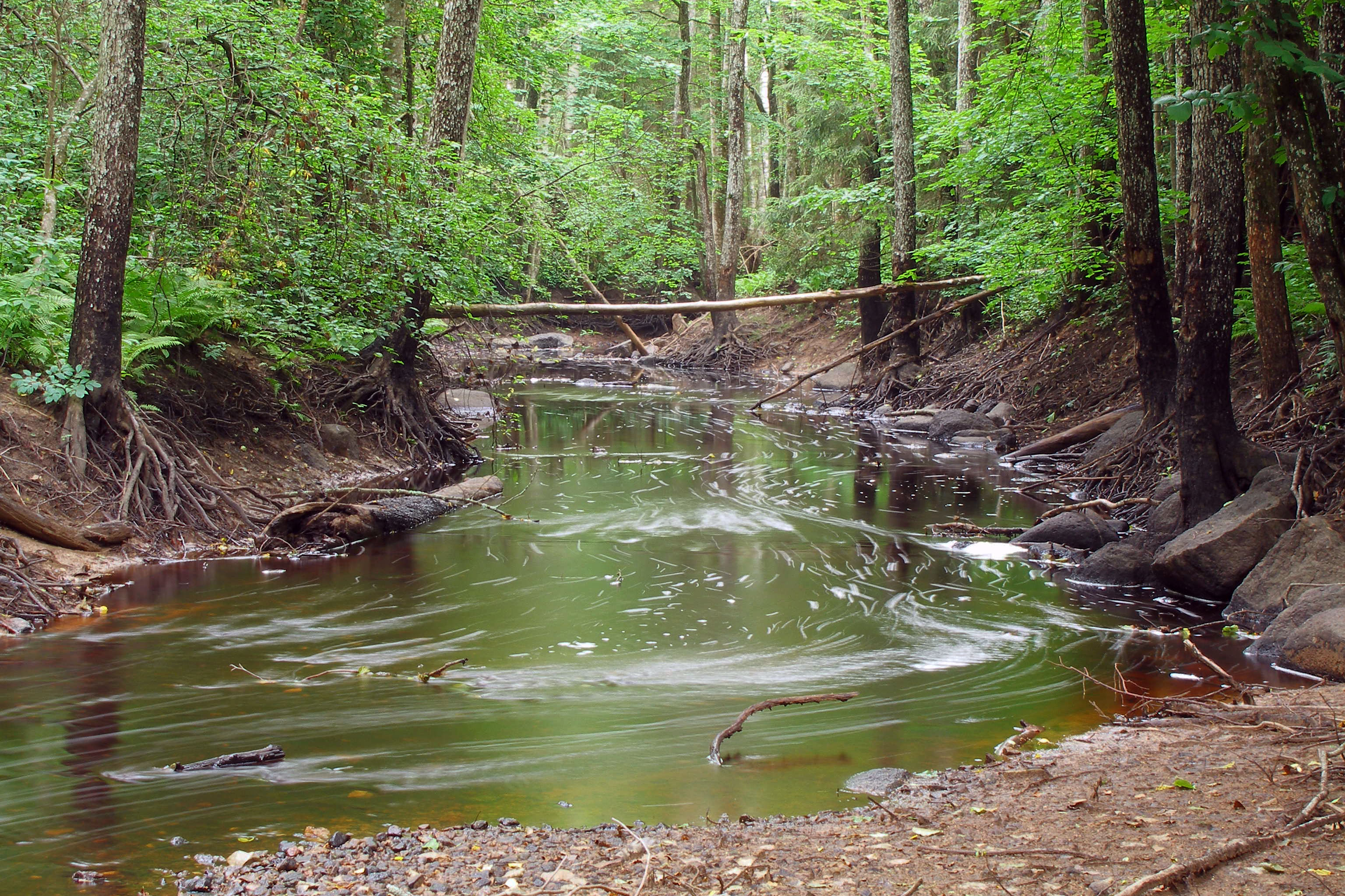 Poruni river, a tributary of Narva, near the eastern border of Estonia.